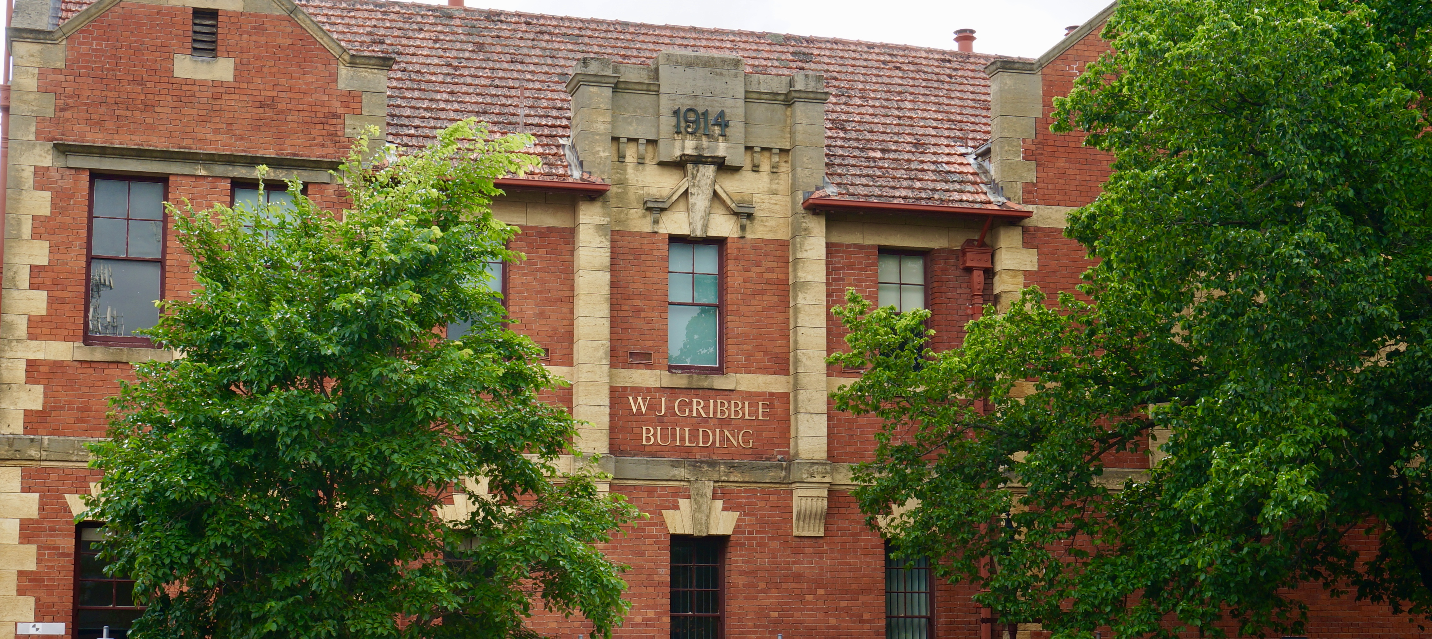 Building in SMB campus.